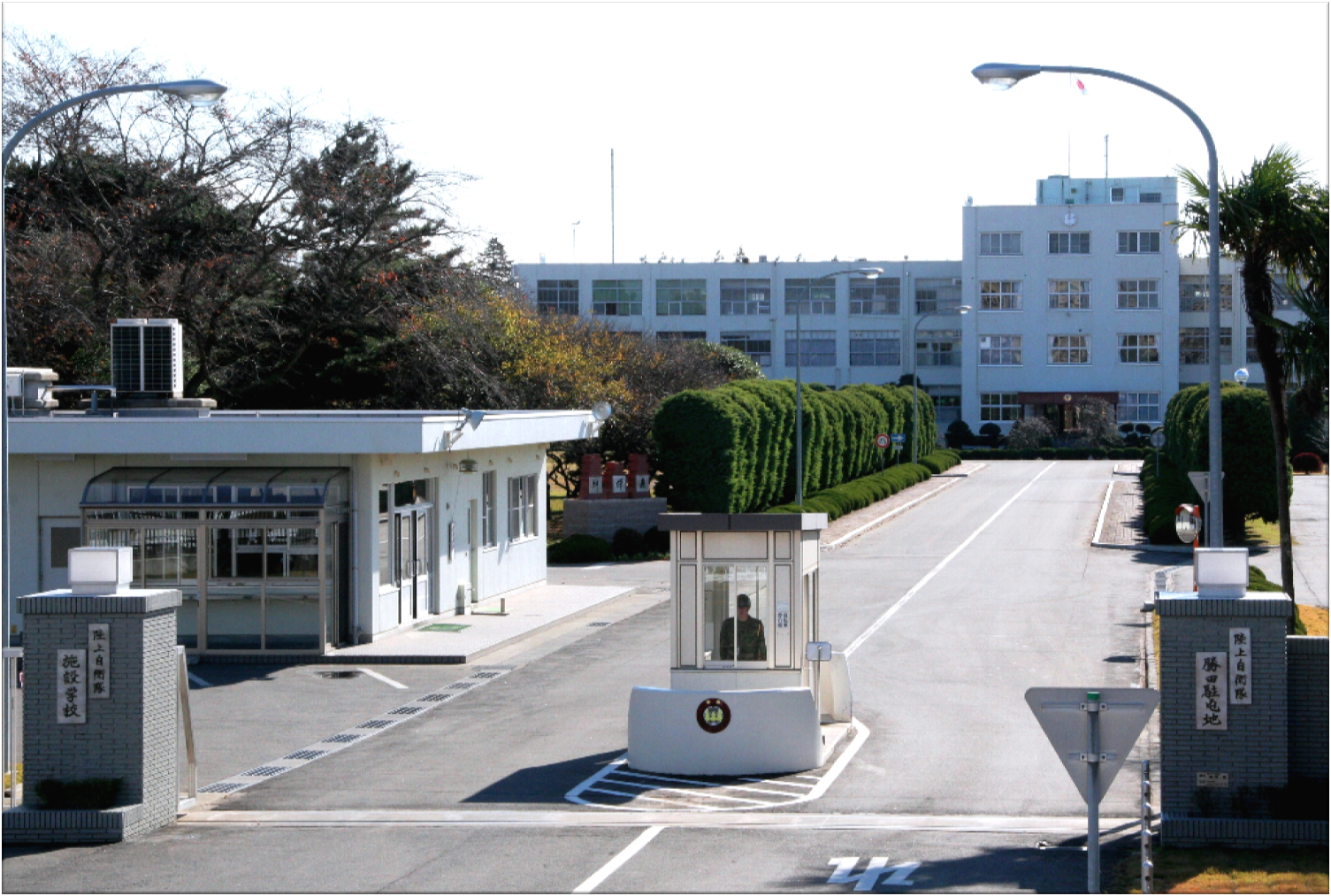 Camp katsuta,JGSDF